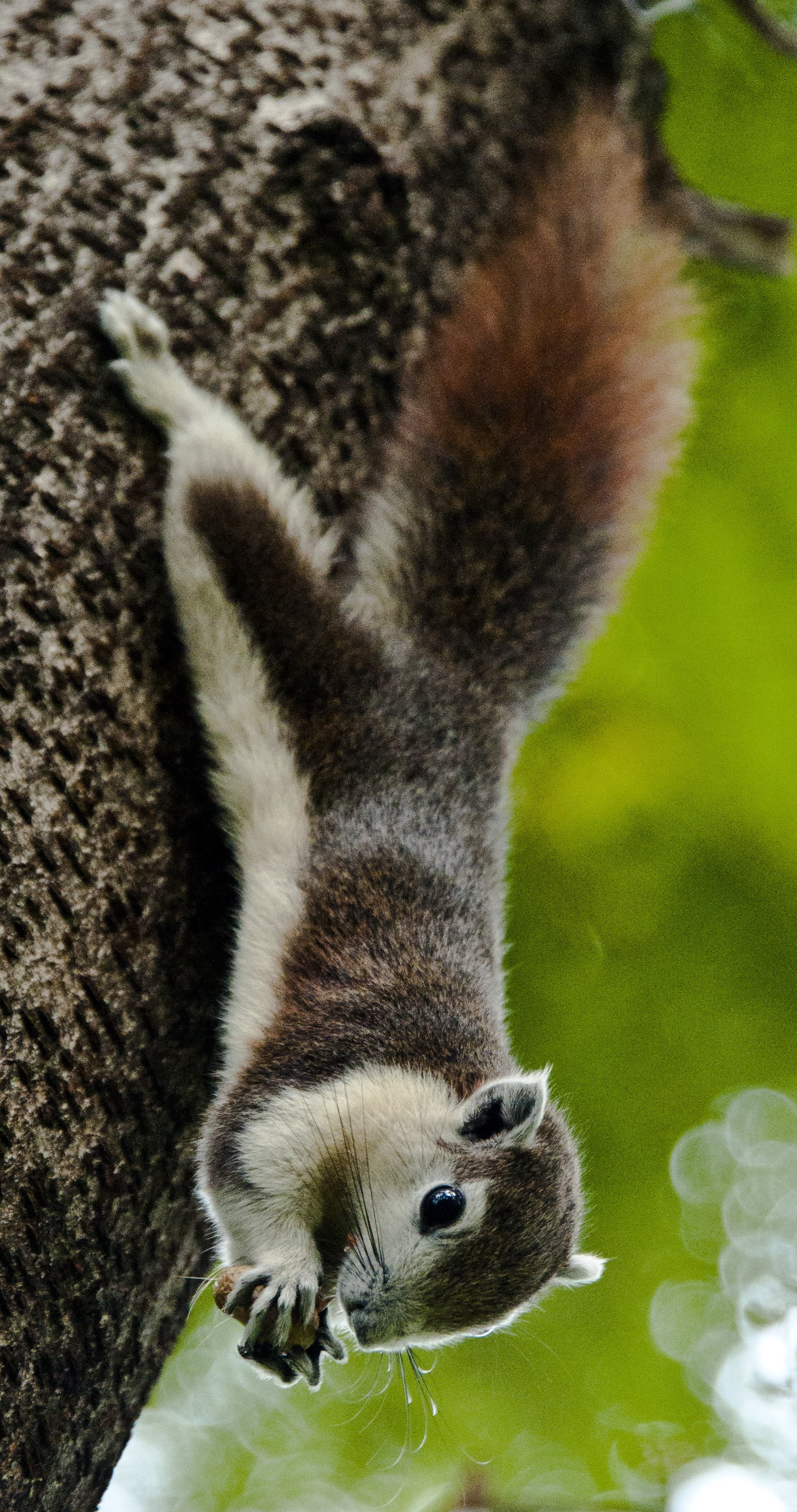 Callosciurus finlaysonii, known as Finlayson's squirrel or variable squirrel. Bangkok - Thailand. Photo by Thai National Parks. This photo is also uploaded to Flickr.